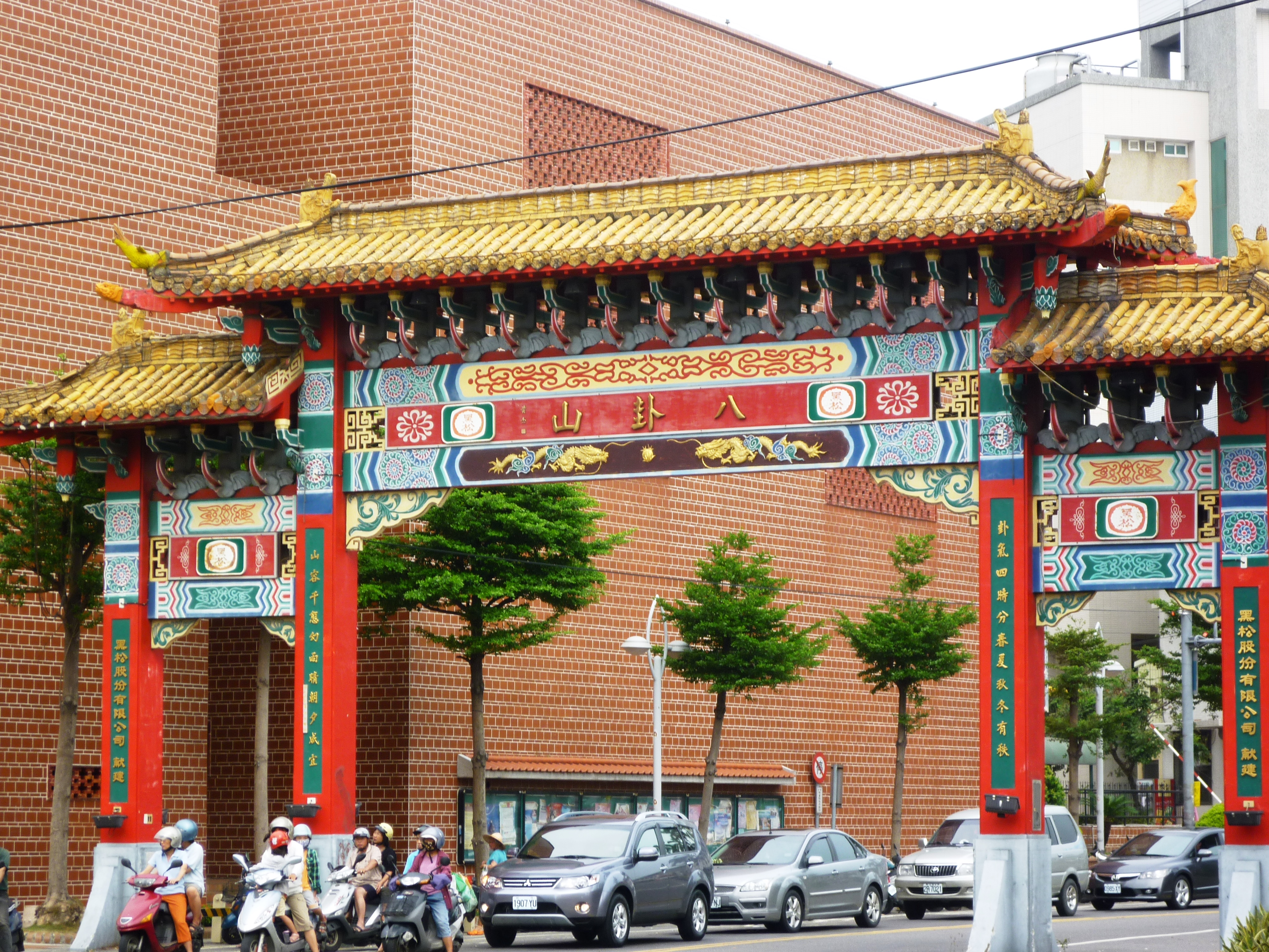 This photo is shows the archway of Baguashan, it's located on Dongming Road in Changhua, Taiwan.